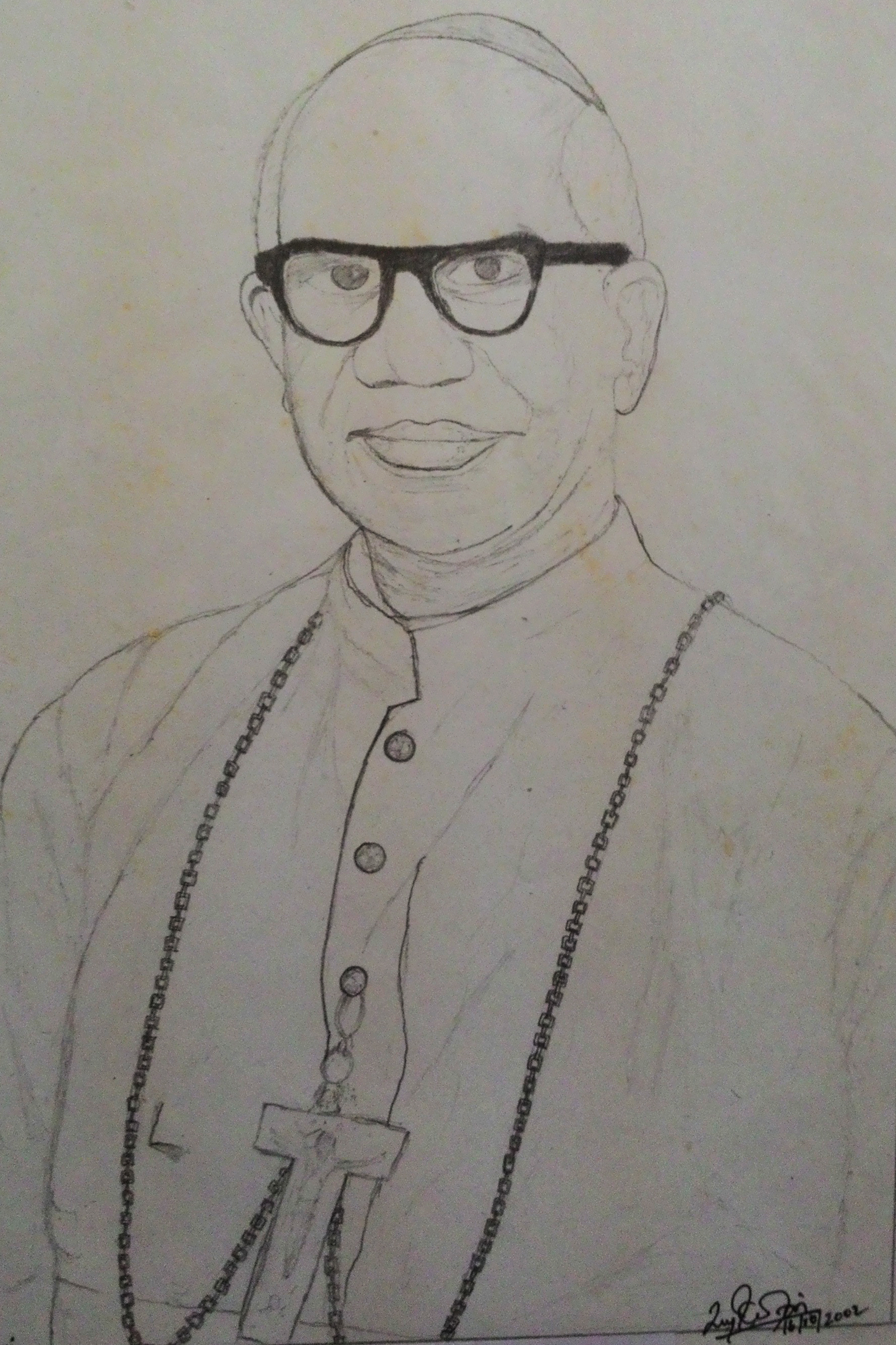 A portrait of Bishop Antony Muthu by Adri Jovin